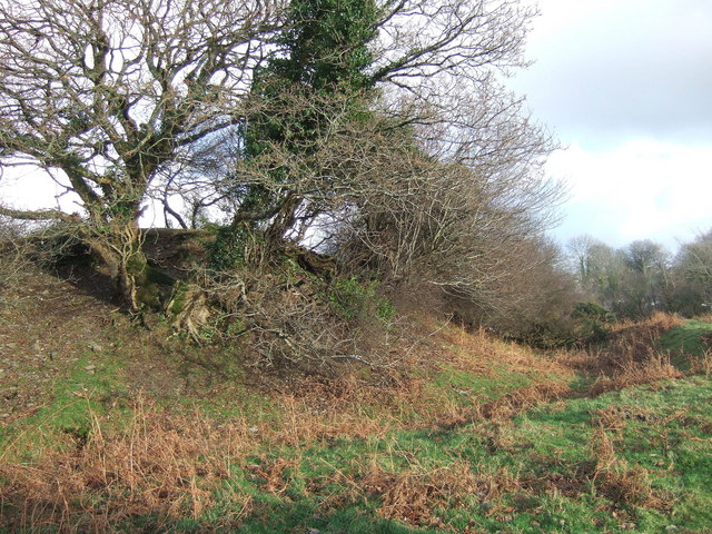 Motte and bailey castle, Eglwyswrw It is difficult to get an idea of the structure of this old earthwork whose outlines have sunk back into the landscape but this view from the southwest shows the bailey and the ditch. It is sited directly west of the present settlement on a natural bluff.